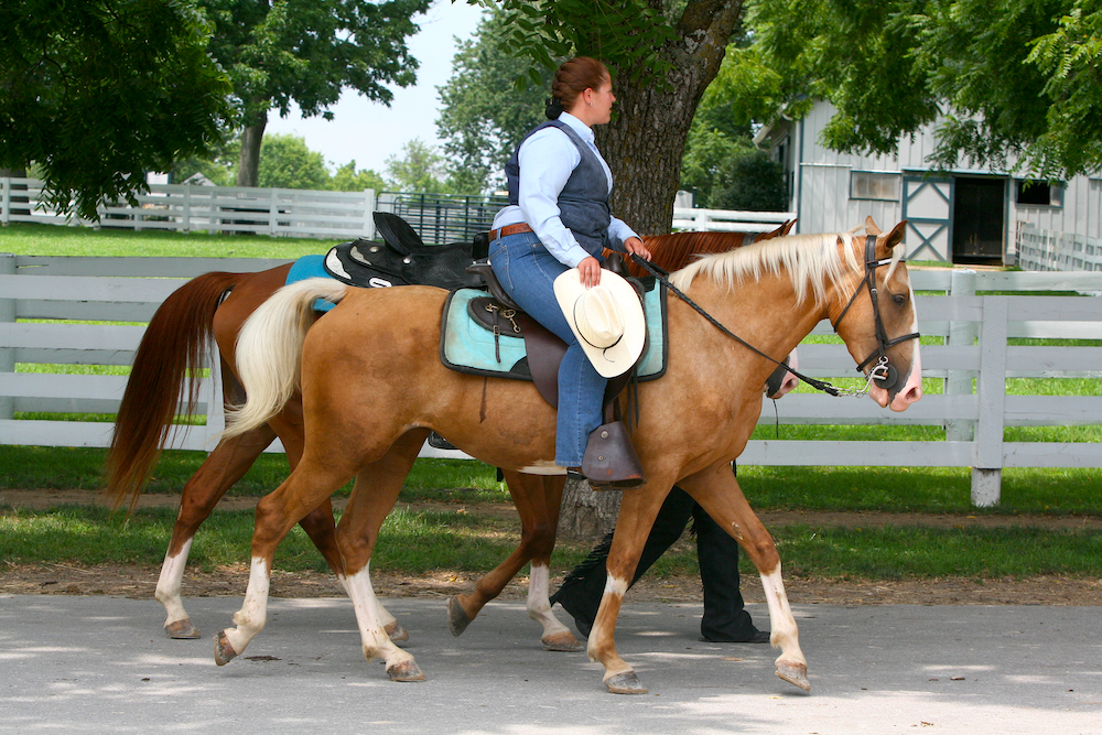 Heather Moreton-abounader Photography